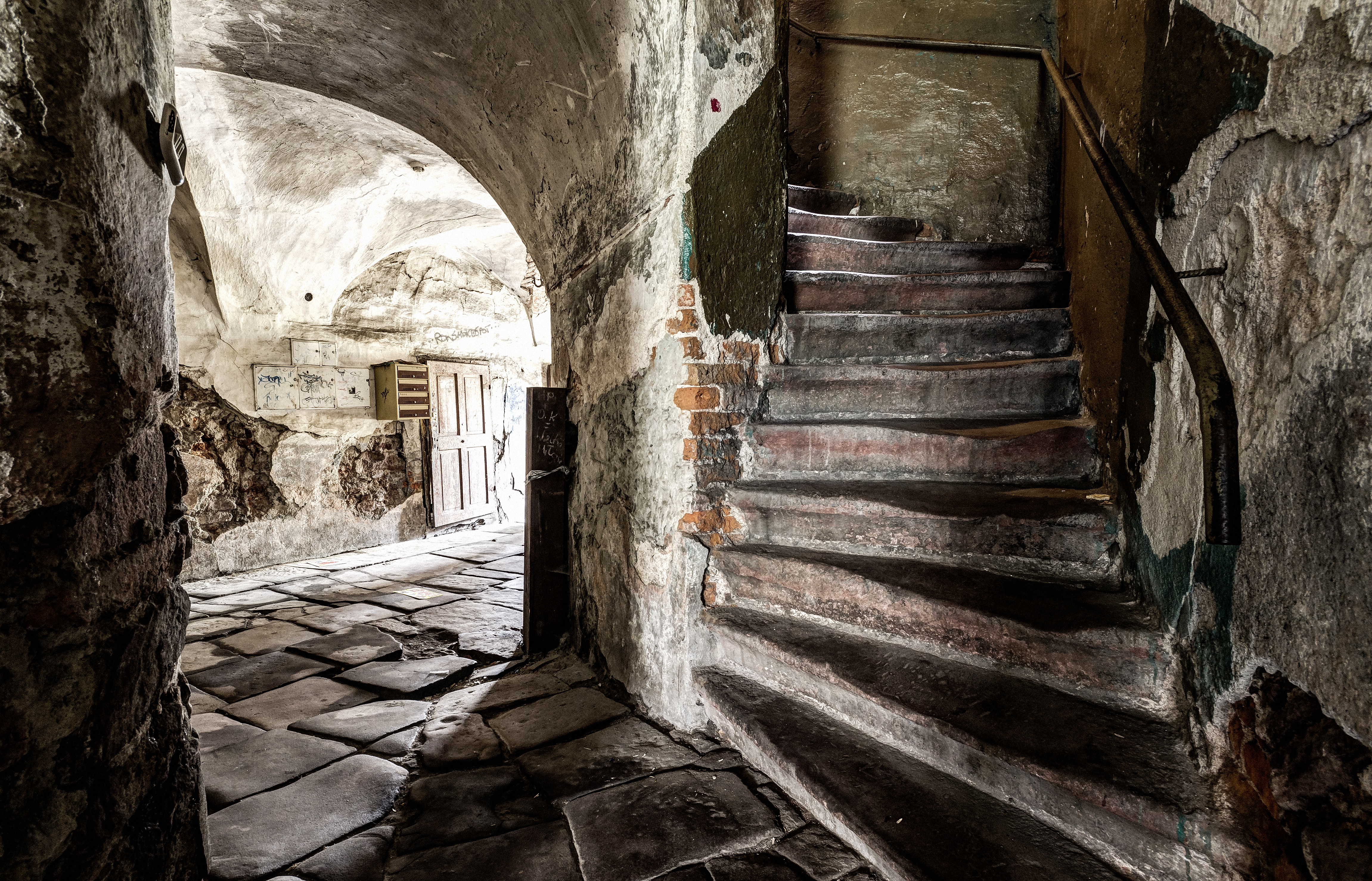 Staircase in XVII-century building in Nowa Ruda, Nadrzeczna Street.